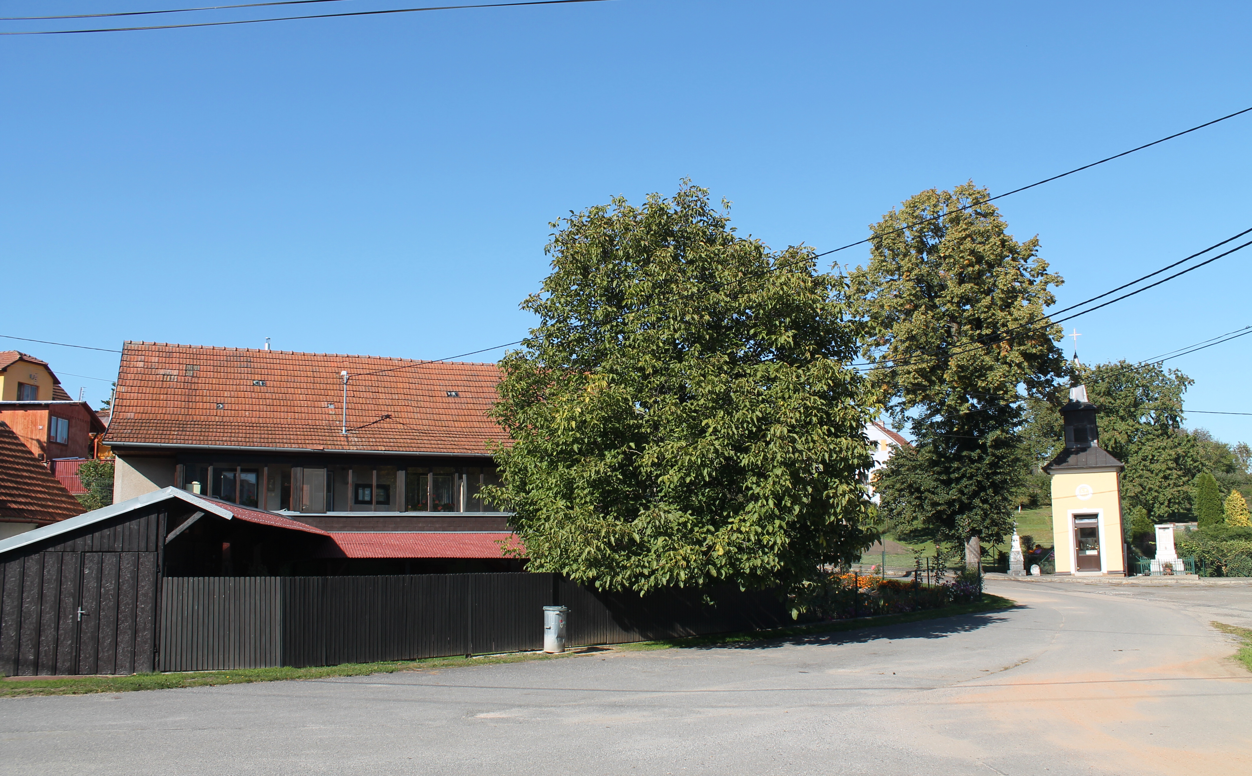 Jemnice, Strážek, Žďár nad Sázavou District, Czech Republic